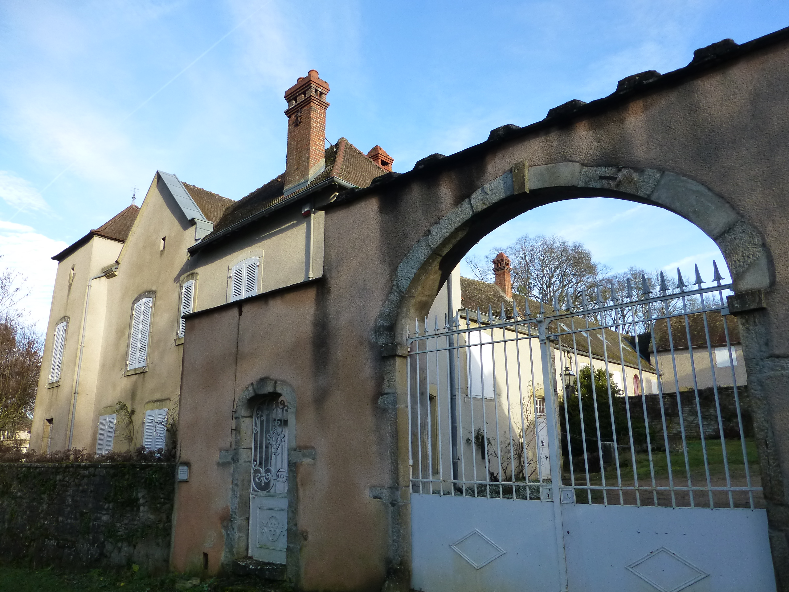 Des Hotel Castle in le Puley